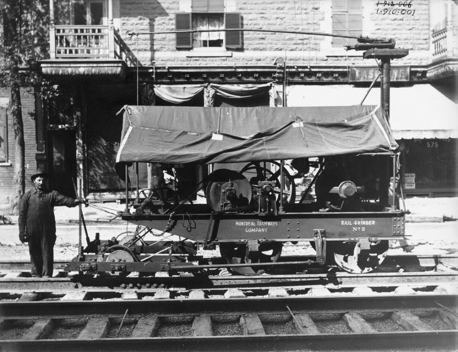 A grinderman with his railgrinder. A railgrinder was equipped with two abrasive blocks, seen here in front of the machine on the left side of the photo. These blocks rubbed the tracks to remove irregularities, thus enabling trams to roll along the rails without friction. Due to the railgrinder's low speed, the grinderman usually worked overnight. Like trams, the railgrinder and other rail maintenance vehicles were often powered by electricity.